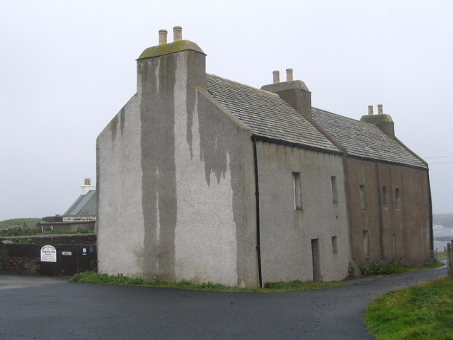 Tangwick Haa (museum) Apologies for the streaky walls - due to the rain, not poor maintenance!